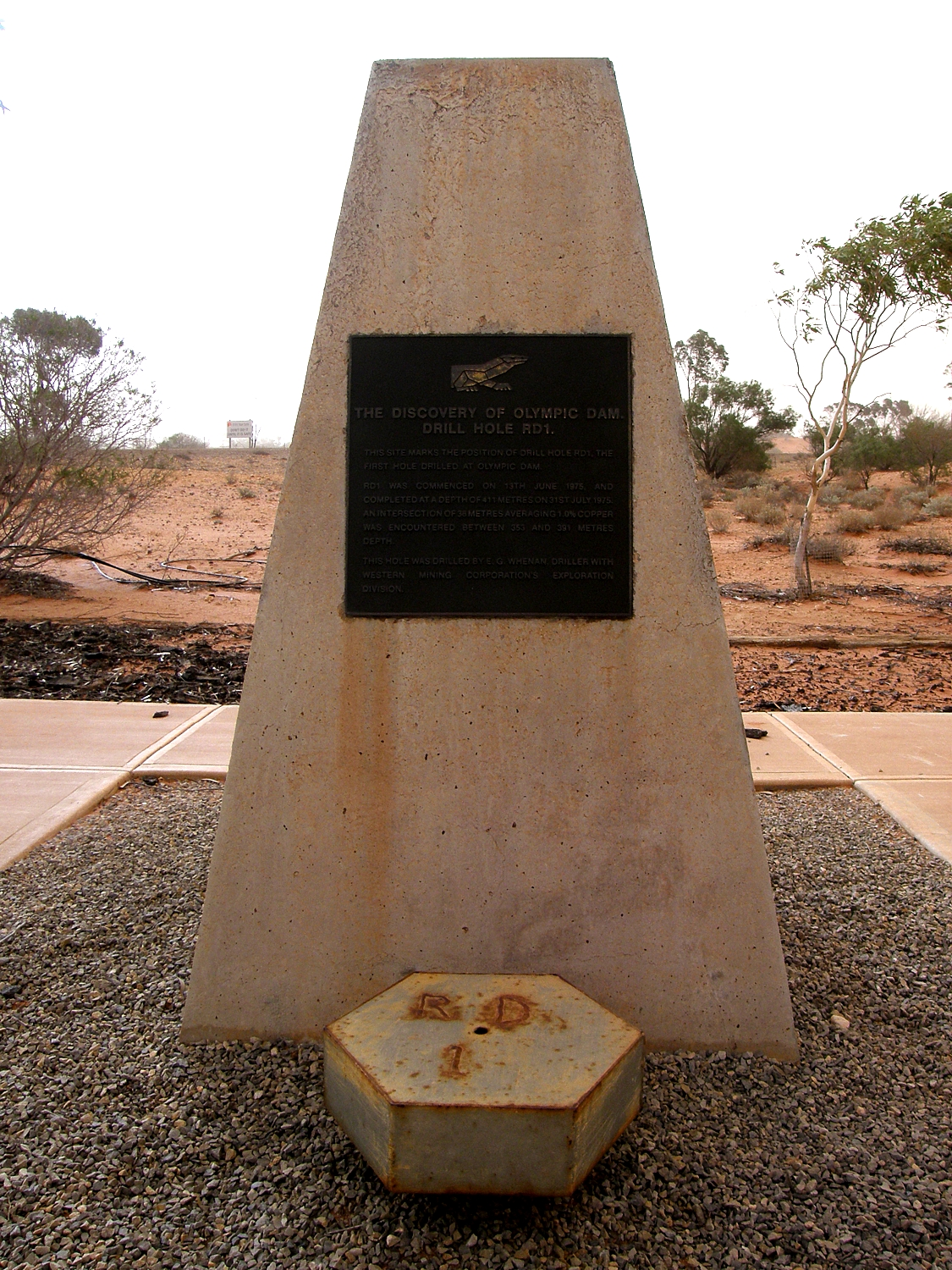 RD1 (Roxby Downs 1), the first drillhole at Olympic Dam IOCG-U deposit